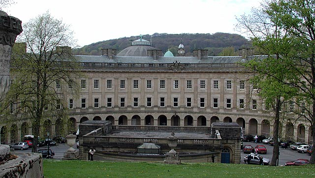 The Crescent, Buxton. The northern architect, John Carr, built the Crescent in Buxton, modelling it on the Royal Crescent at Bath